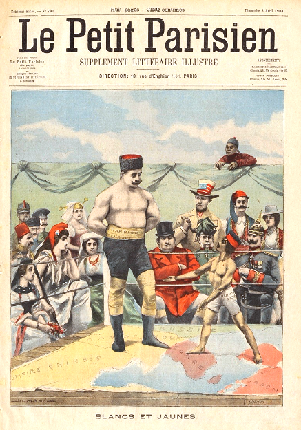 A satirical cartoon from late in the Russo-Japanese War.